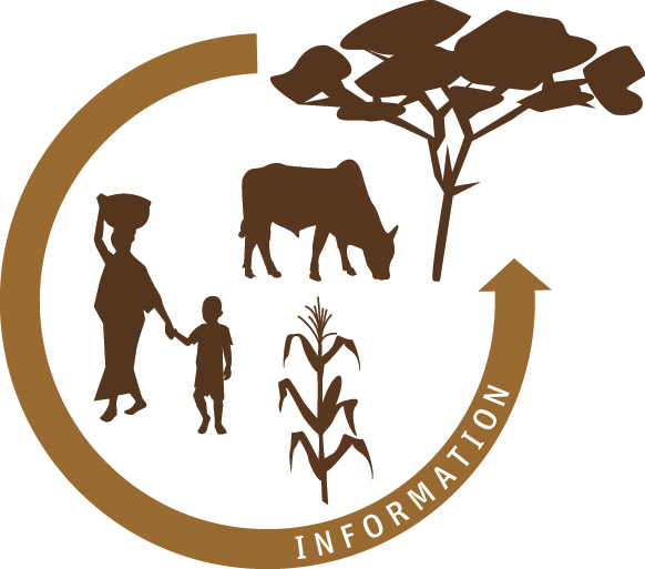 Ganzheitlicher Ansatz „4G+i“ 4 mal „G“ für Gesundheit der Menschen, Tiere Pflanzen und Umwelt und „i“ für Information